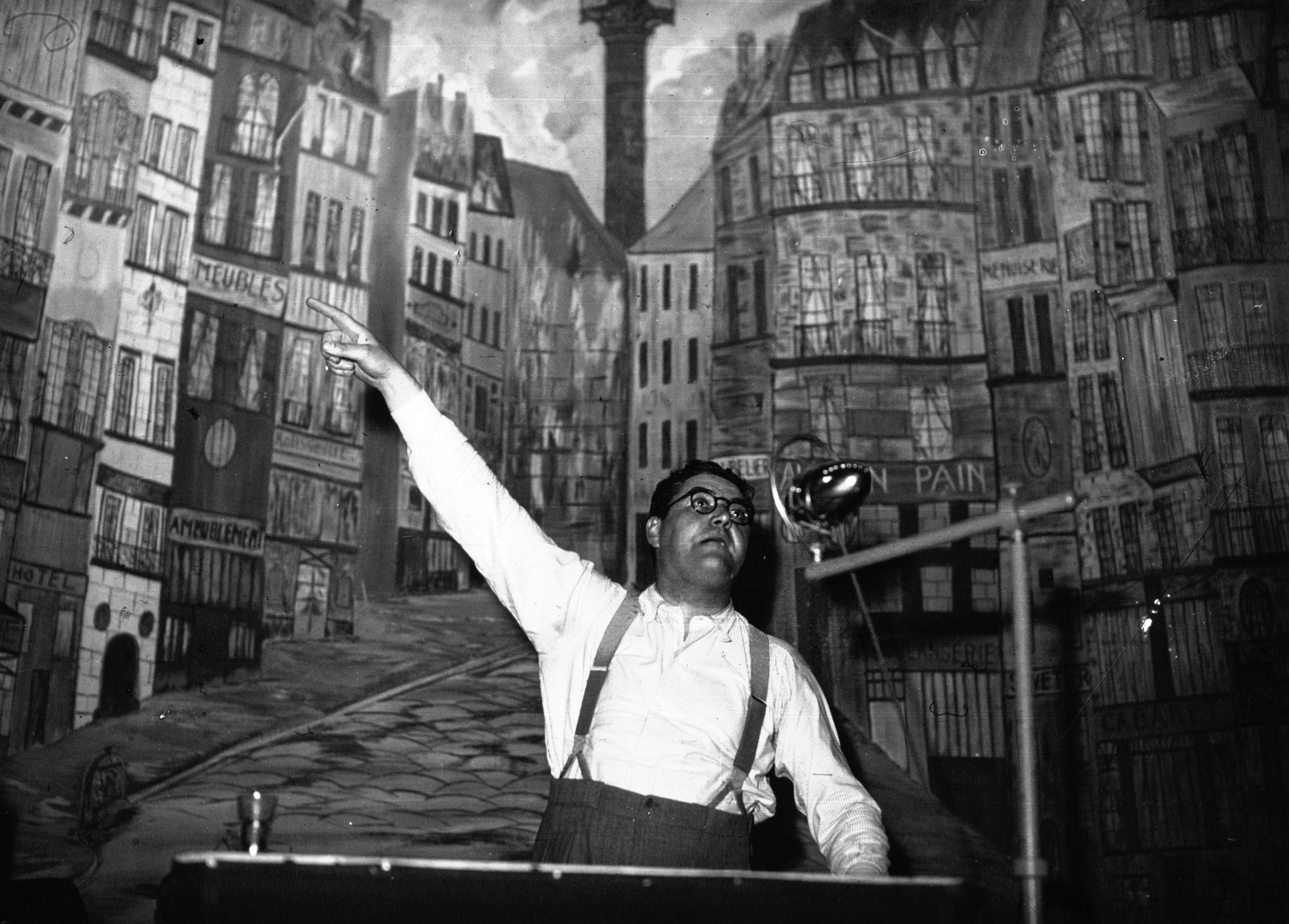 Jacques Doriot (1898-1945) speaking at the first meeting of the Parti populaire français at the Saint-Denis Municipal Theatre in 1936.